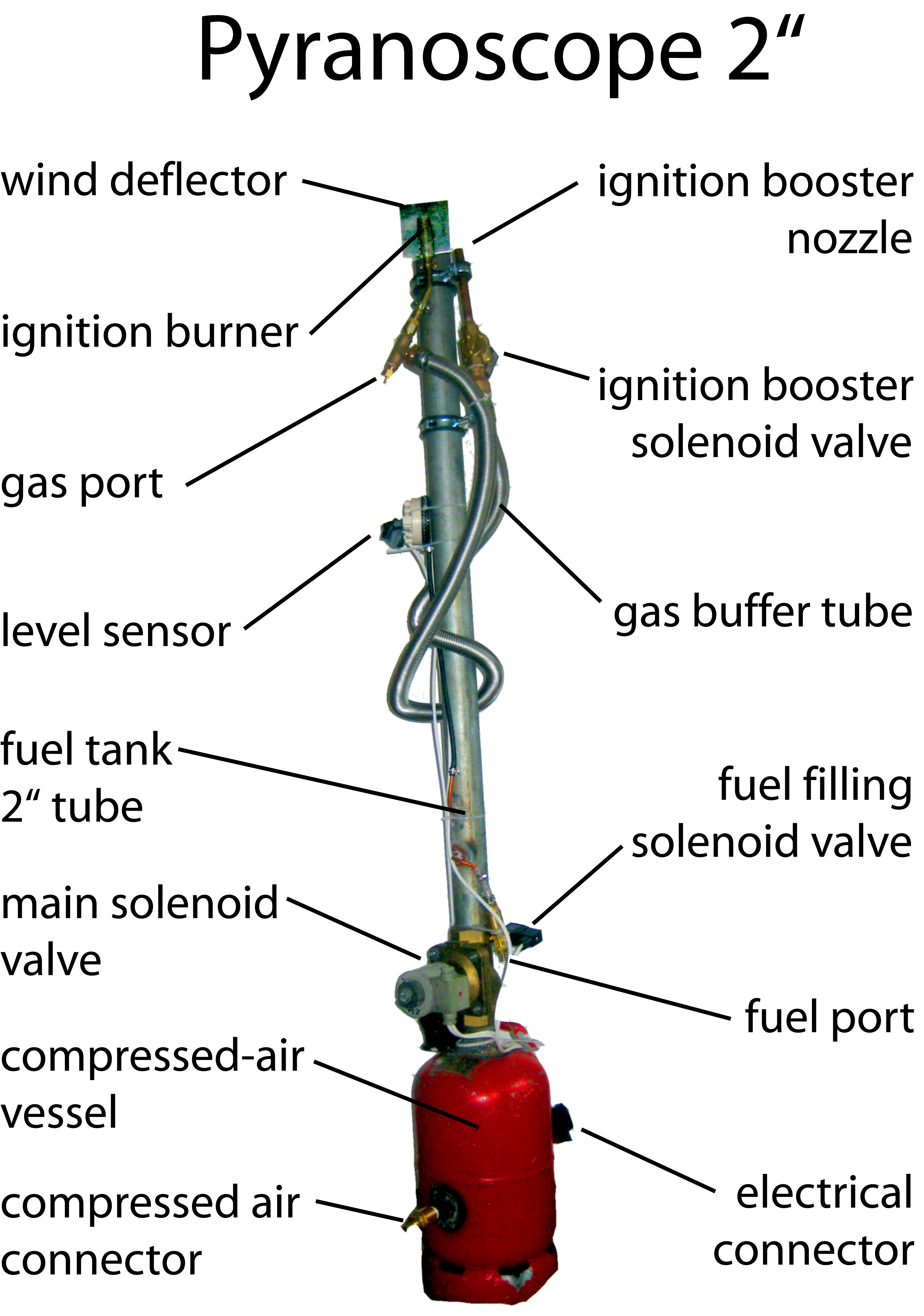 2" Pyranoscope for displaying flames up to 15 meters height